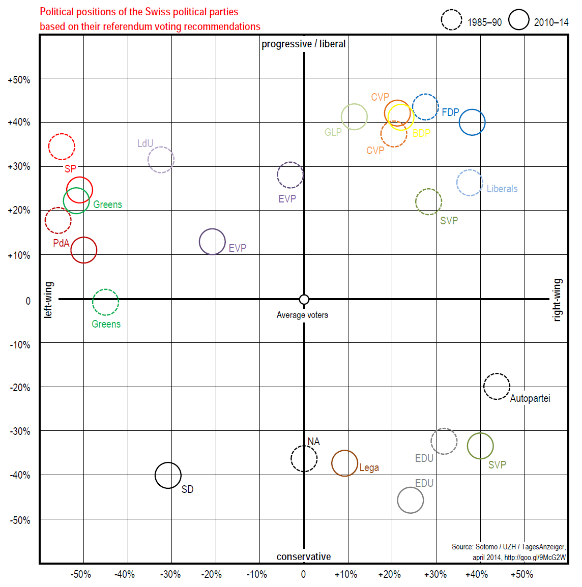 Political positions of the Swiss political parties based on their referendum voting recommendations, 1985-90 and 2010-14. based on the data of Sotomo / UZH and the graphic of the Datenblog of the TagesAnzeiger, 21 April 2014.